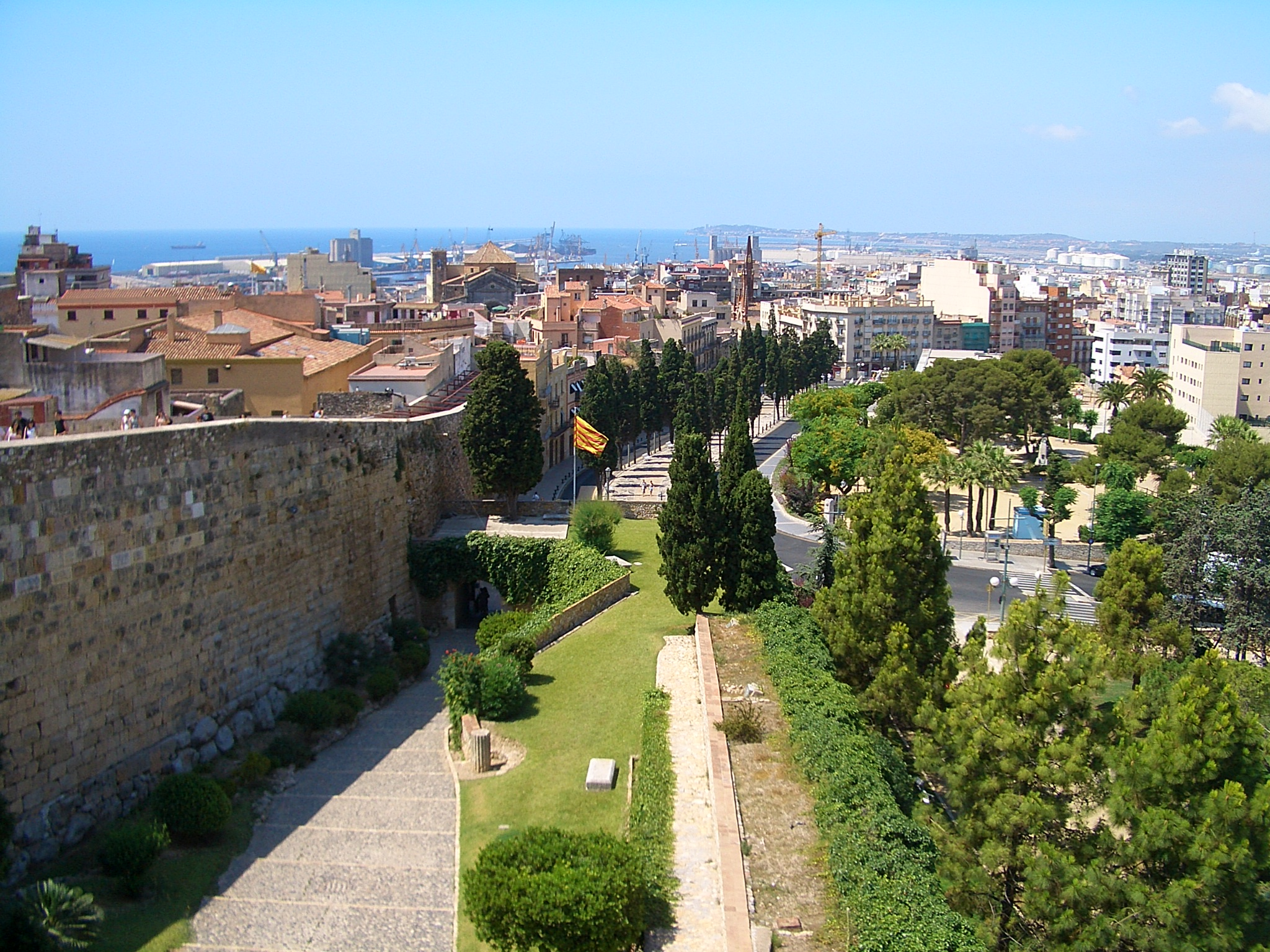 A view of Tarragona, with the harbor in the backgorund, from near the Roman wall